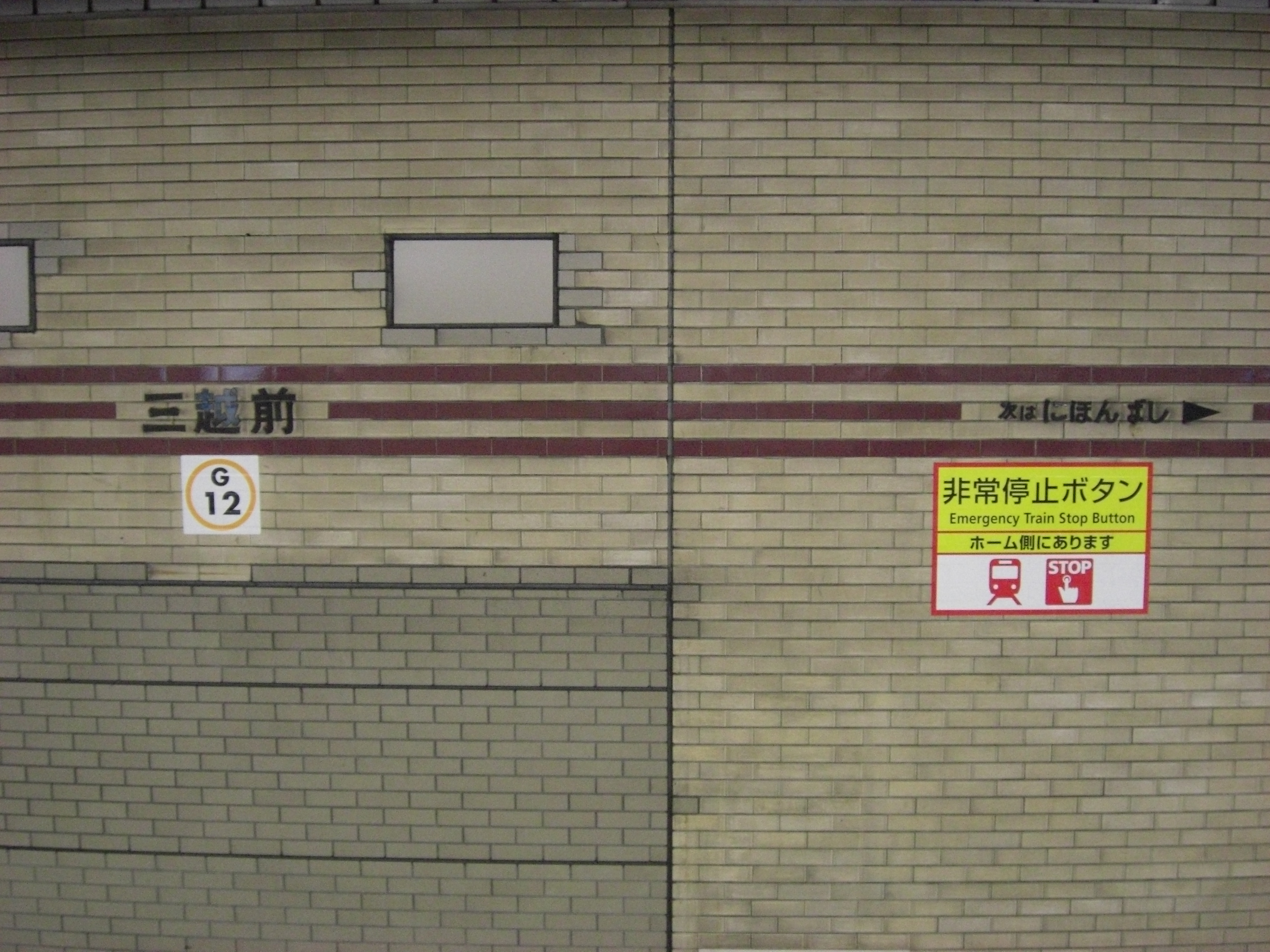 Station sign of Mitsukoshimae Station